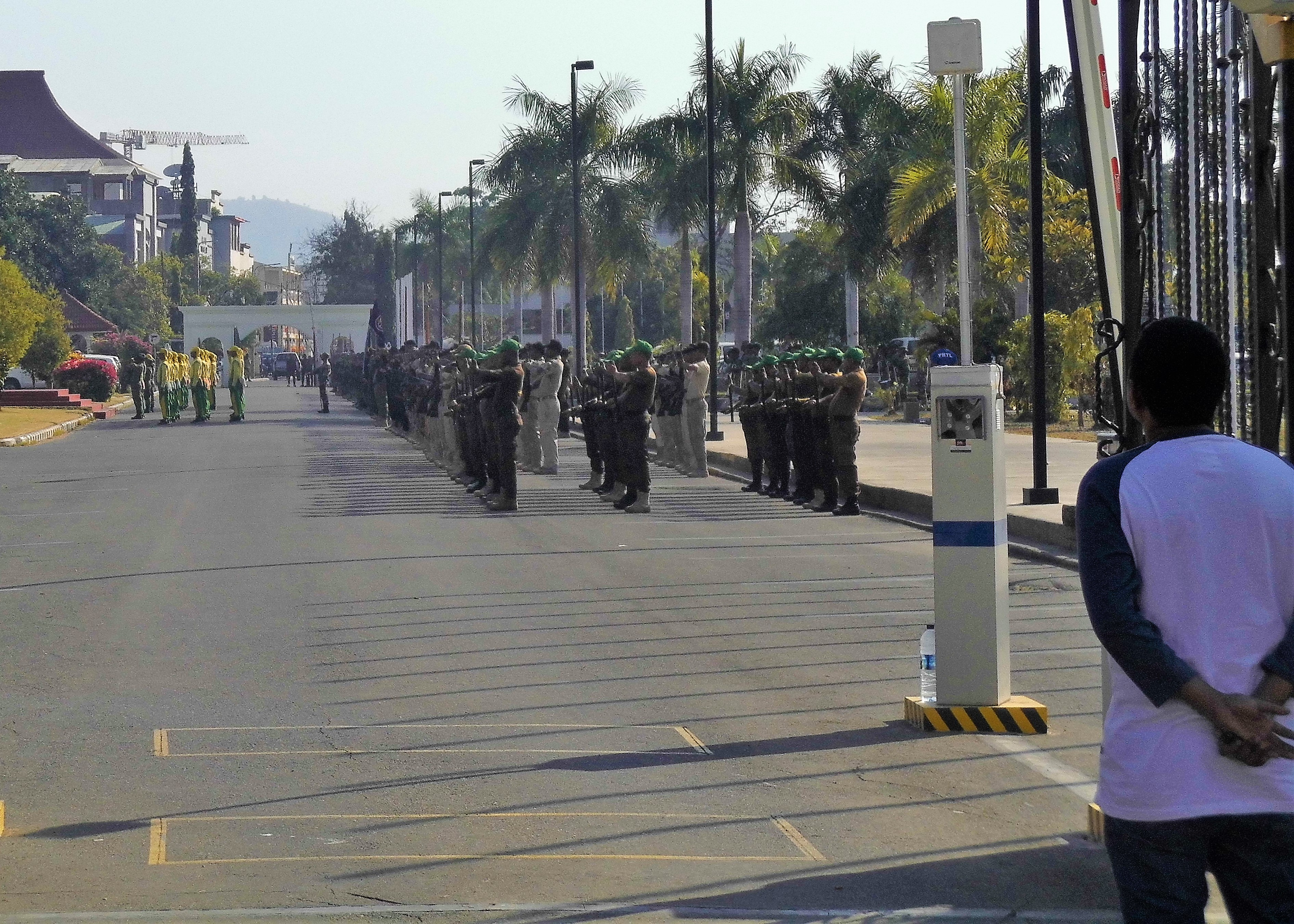 Training for independence day